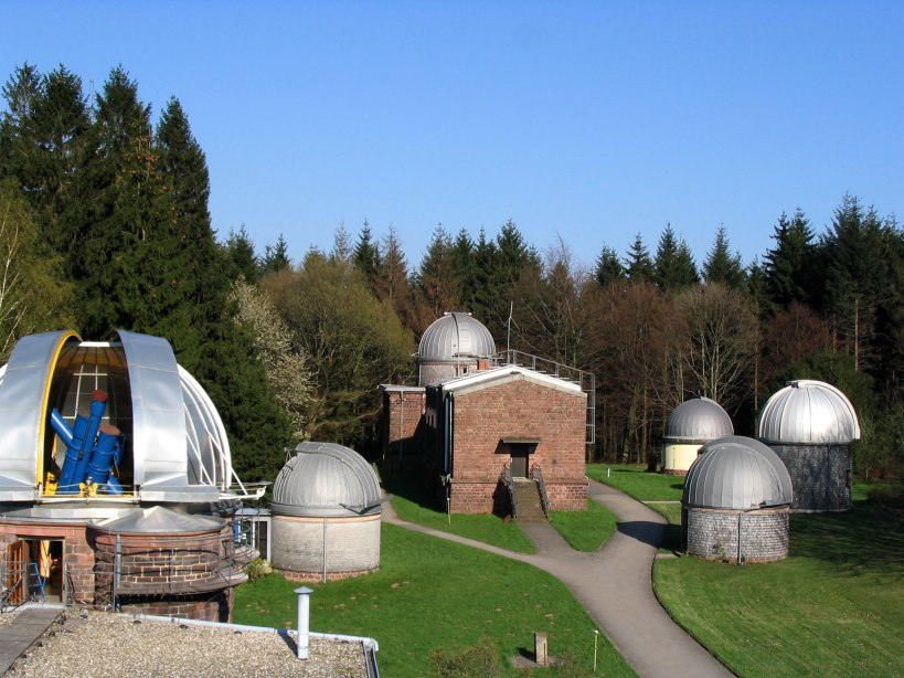 Several domes at the Landessternwarte Heidelberg-Koenigstuhl, dome of Bruce telescope open. I took this photograph personally.